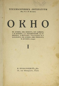 This is my photograph of the front cover of Okno Almanac No 1 published in 1923.